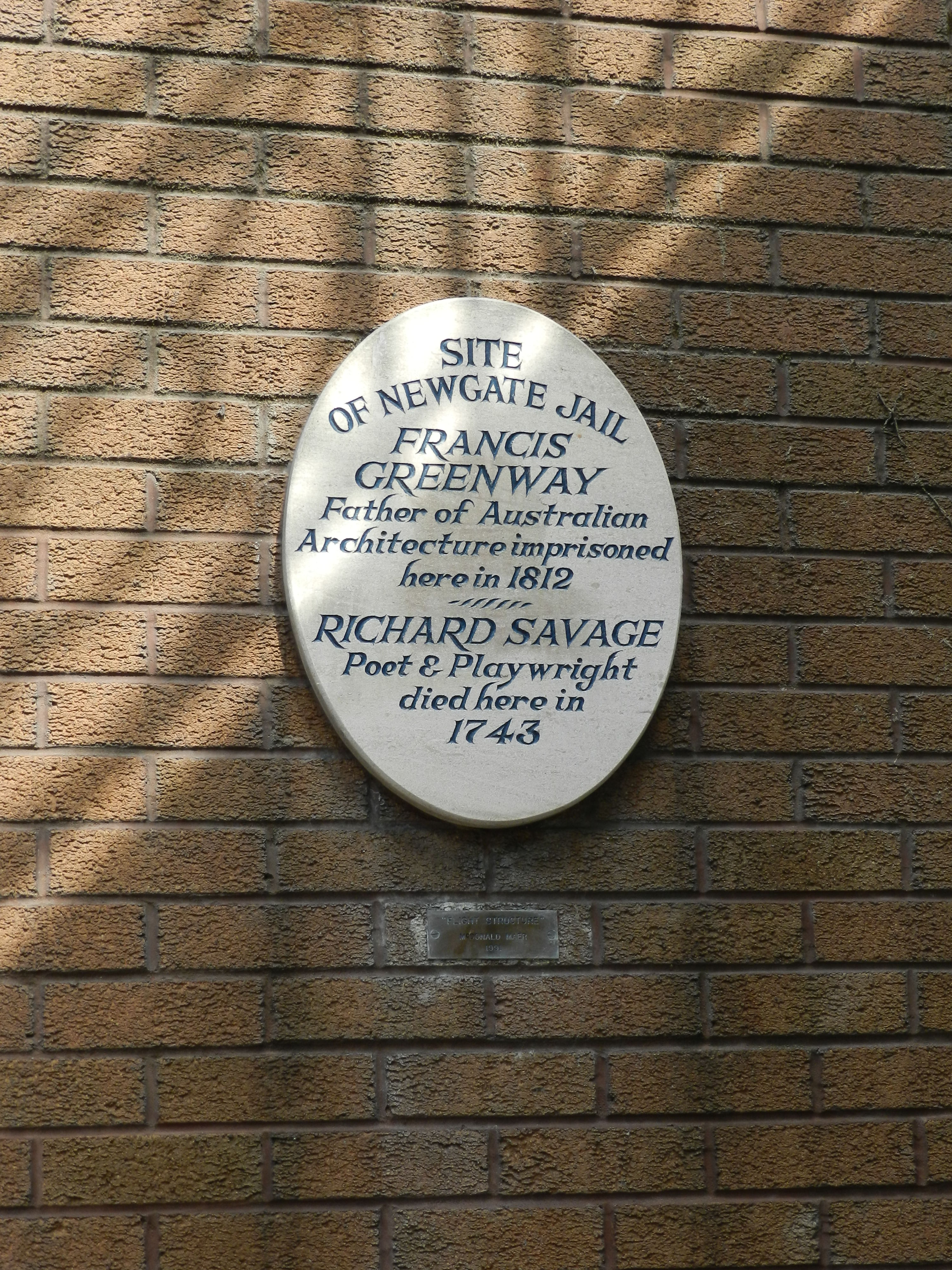 Francis Greenway - Father of Australian Architecture imprisoned here in 1812. Richard Savage - Poet & Playwright died here in 1743. Bristol